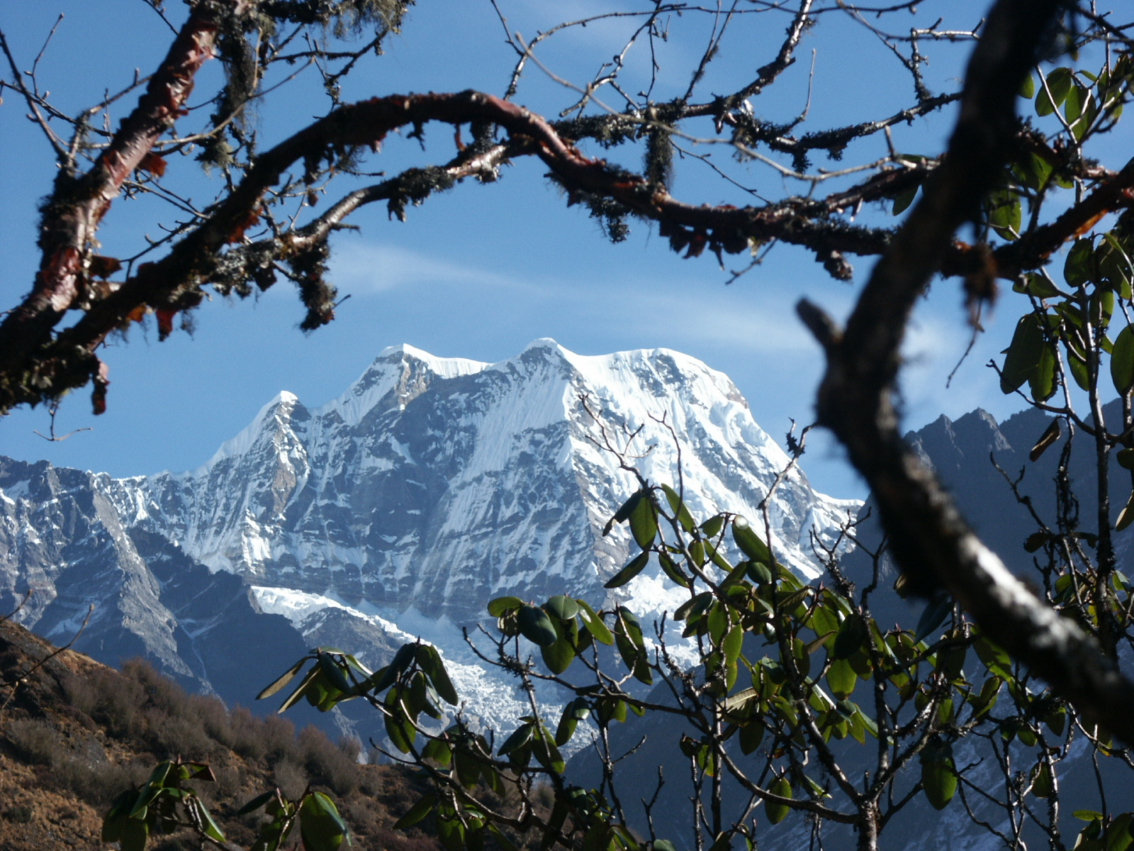 Mera Peak from below the Zatr La, seen between the branches of a rhododendron